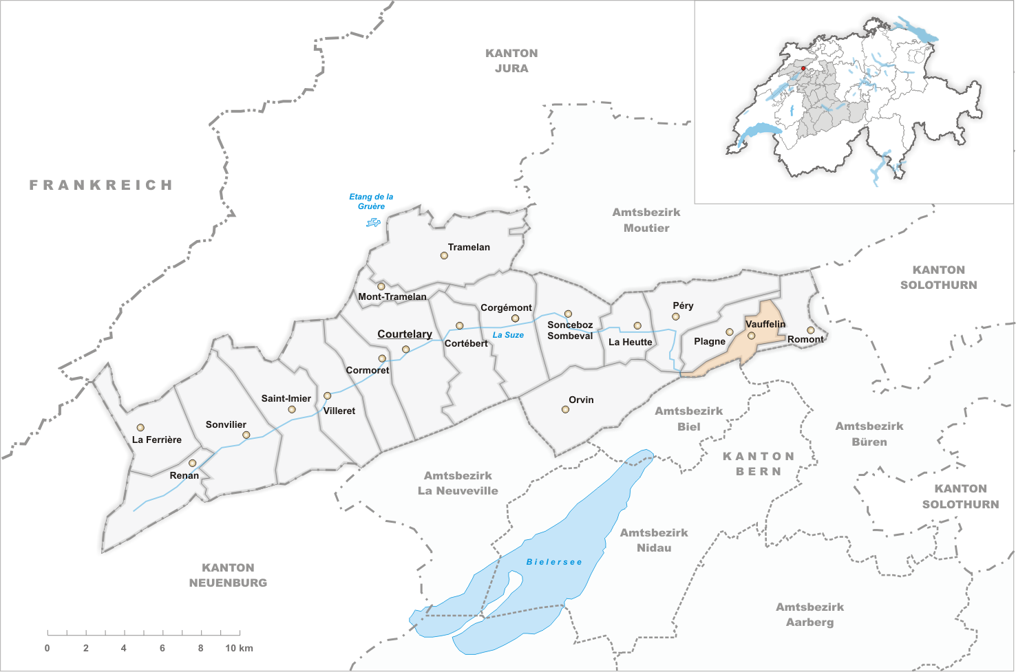 Municipality Vauffelin